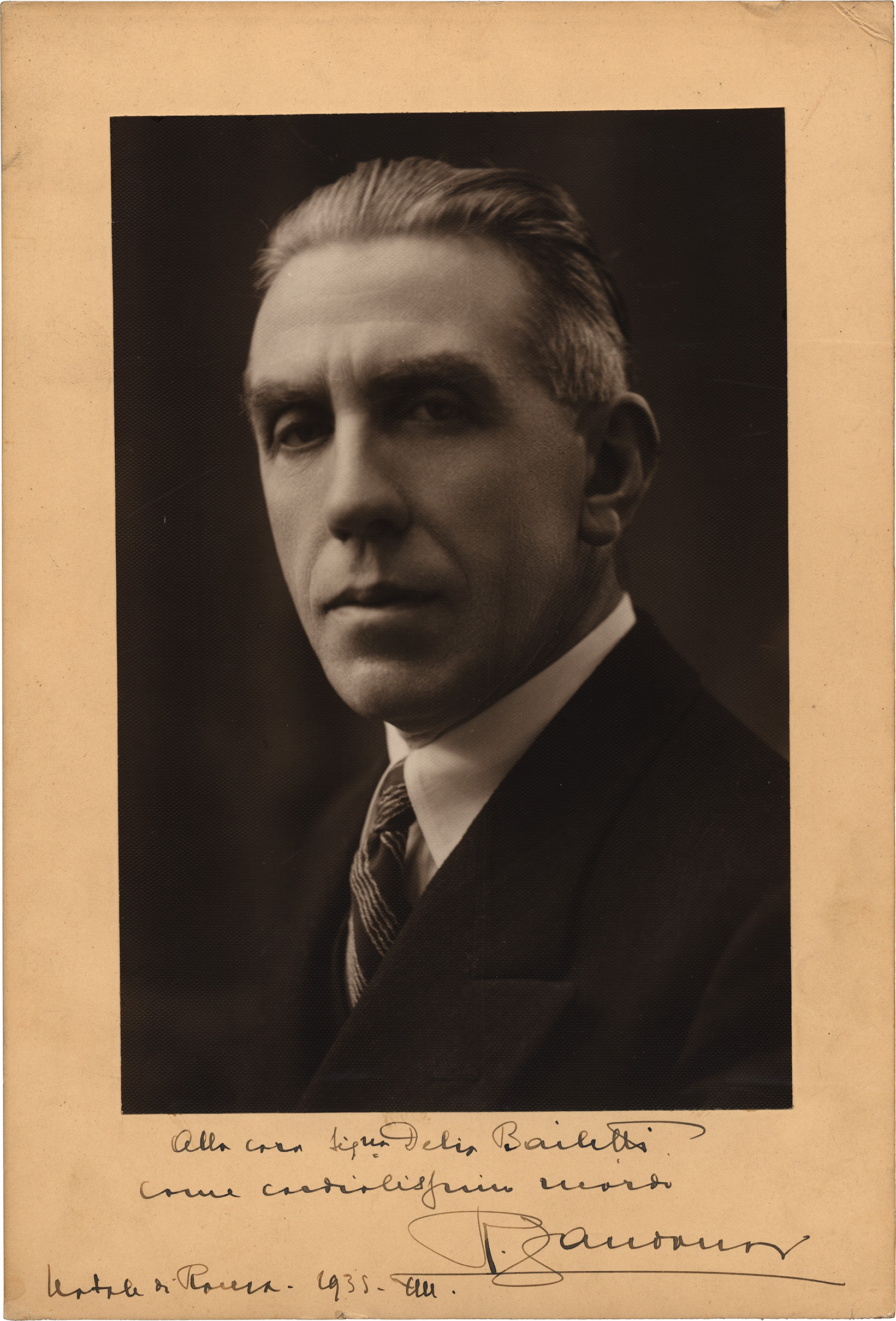 Portrait of Riccardo Zandonai, composer (1883-1944). Photo by Spadea, 1935.